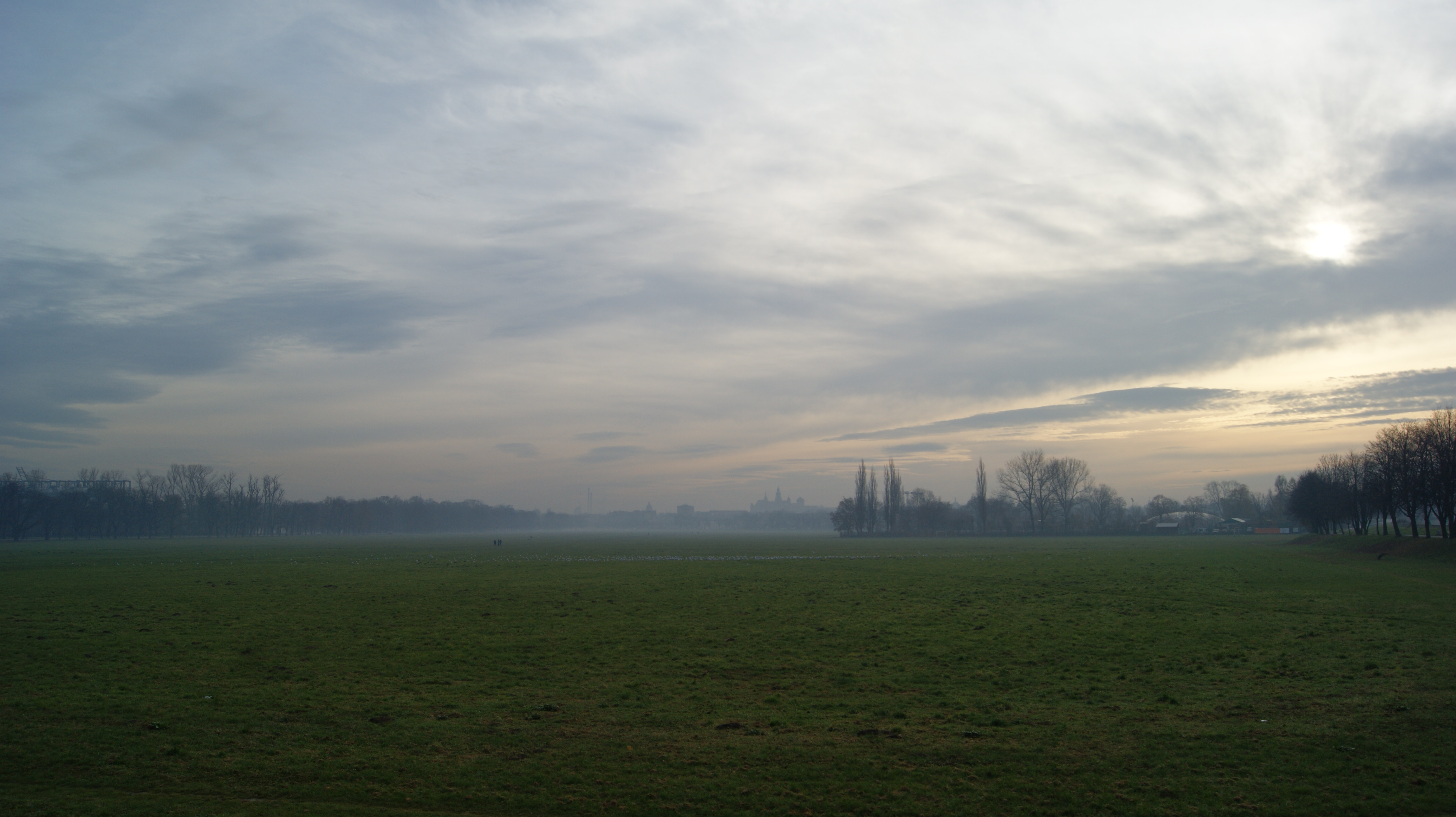 Krakow Blonia (Meadow) view to E,Krakow,Poland